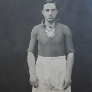 Zeki Riza in the 20s